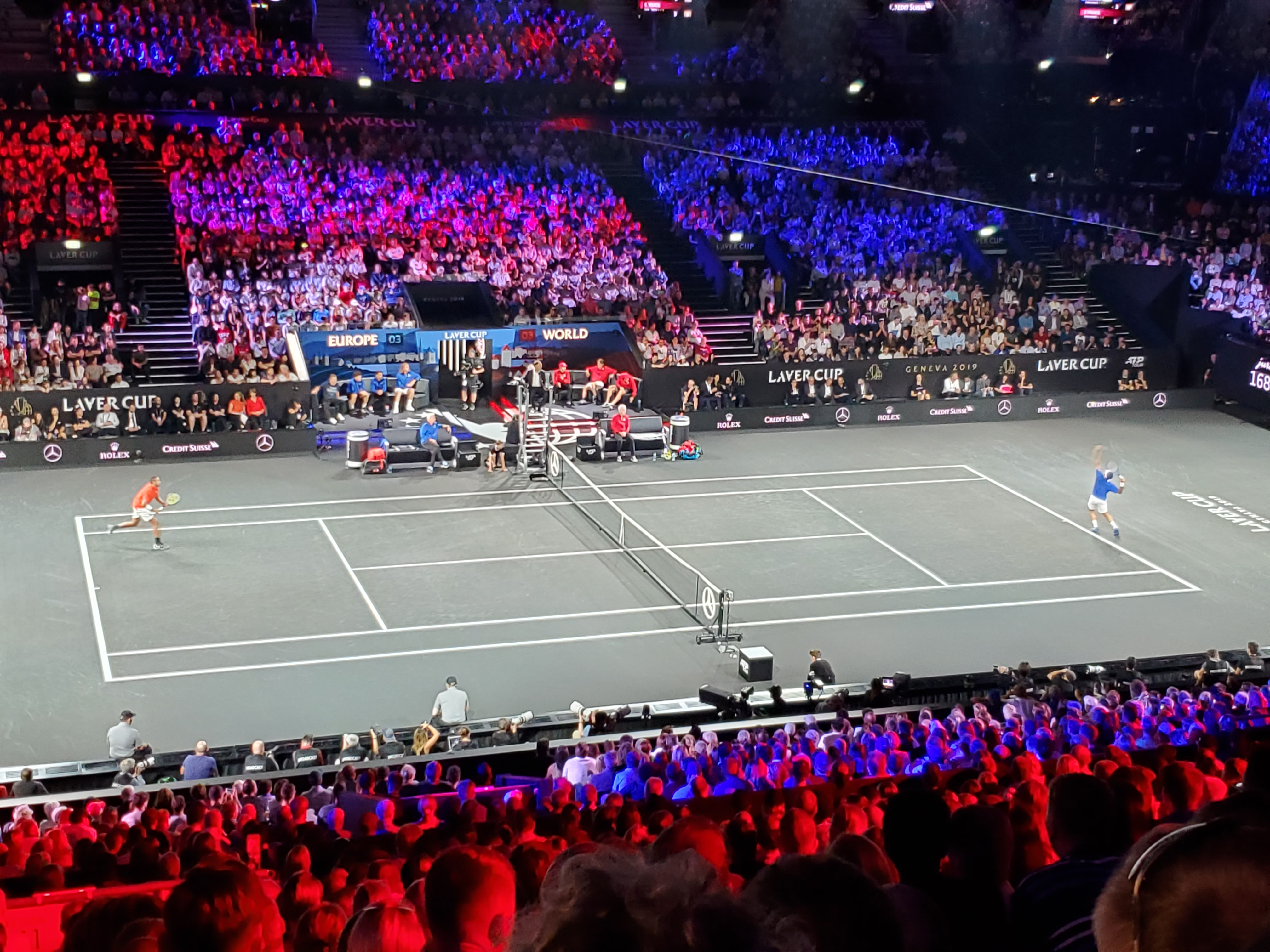 Laver Cup Kyrgios sneak attack on Federer serve